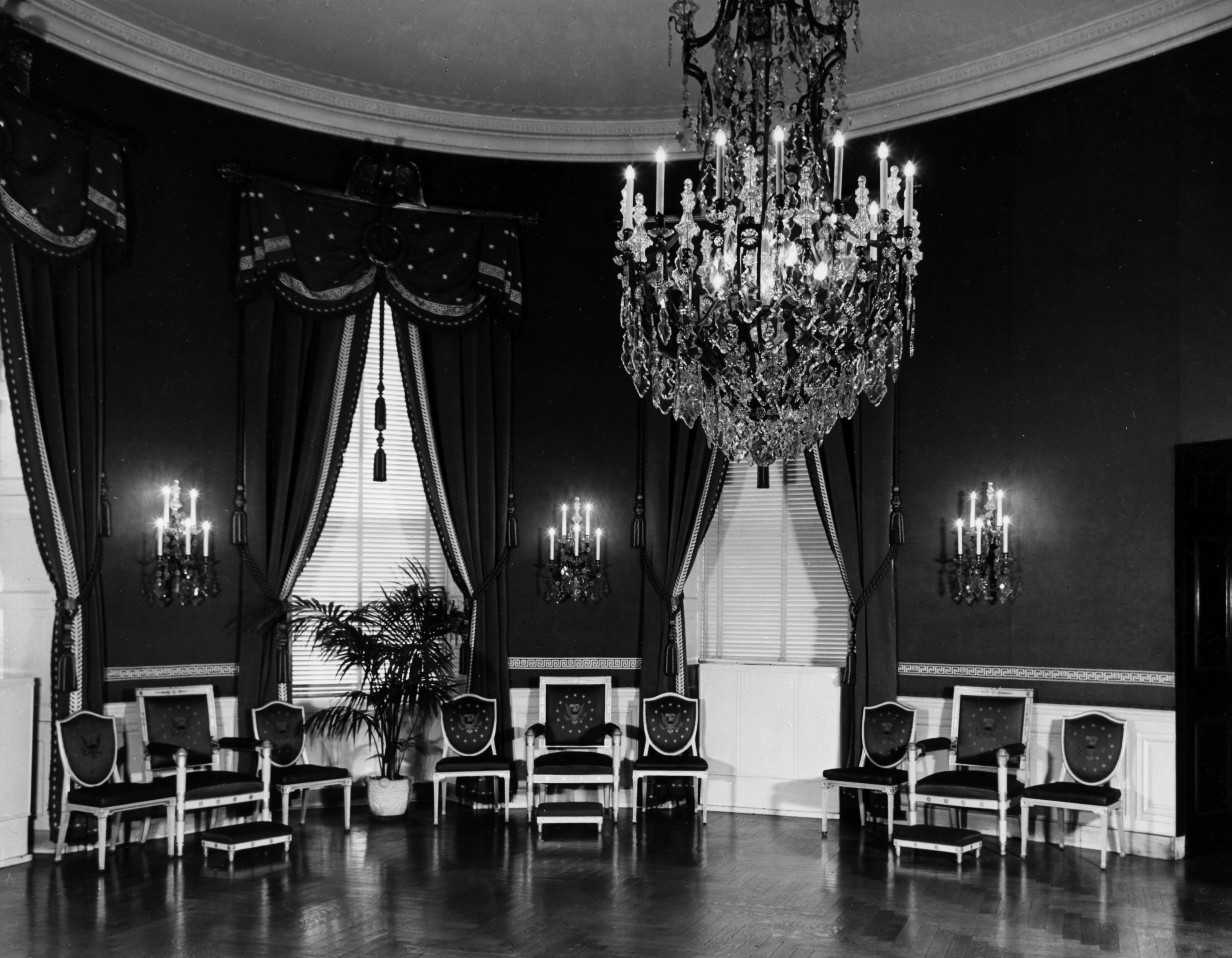 General notes: Photo of the East Room showing the portraits of George and Martha Washington on the walls. From an album of photographs by Abbie Rowe of the White House, prior to the renovation in 1949.